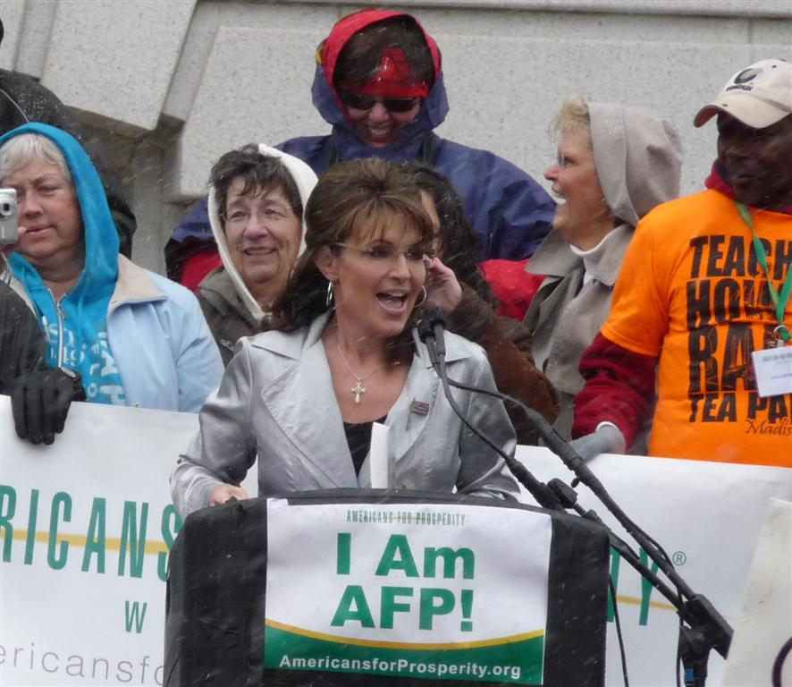 Sarah Palin at the Americans for Prosperity-run Wisconsin 2011 Tax Day Tea Party Rally.